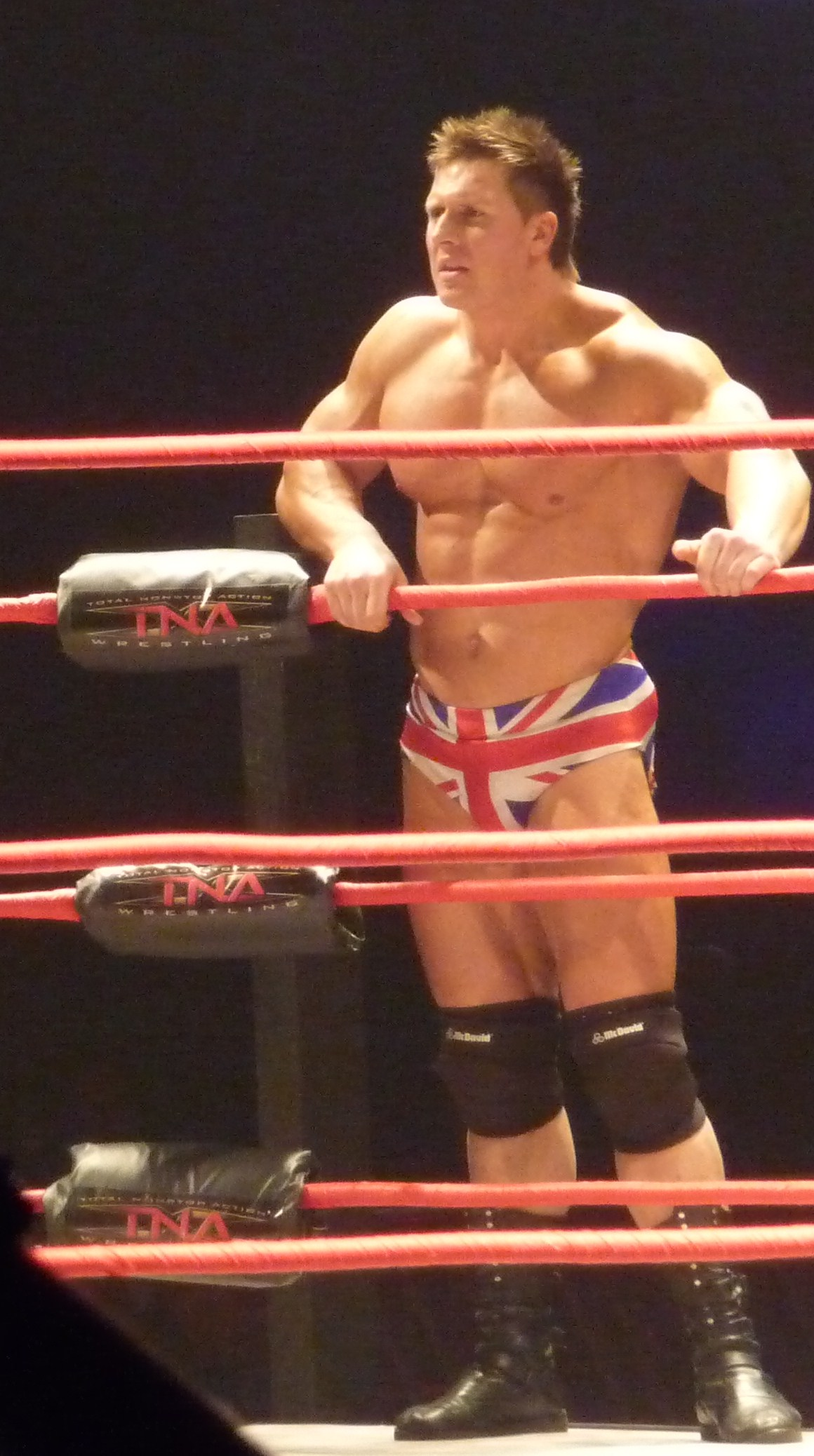 Professional Rob Terry at a TNA show in Wembley Arena on January 30, 2010.